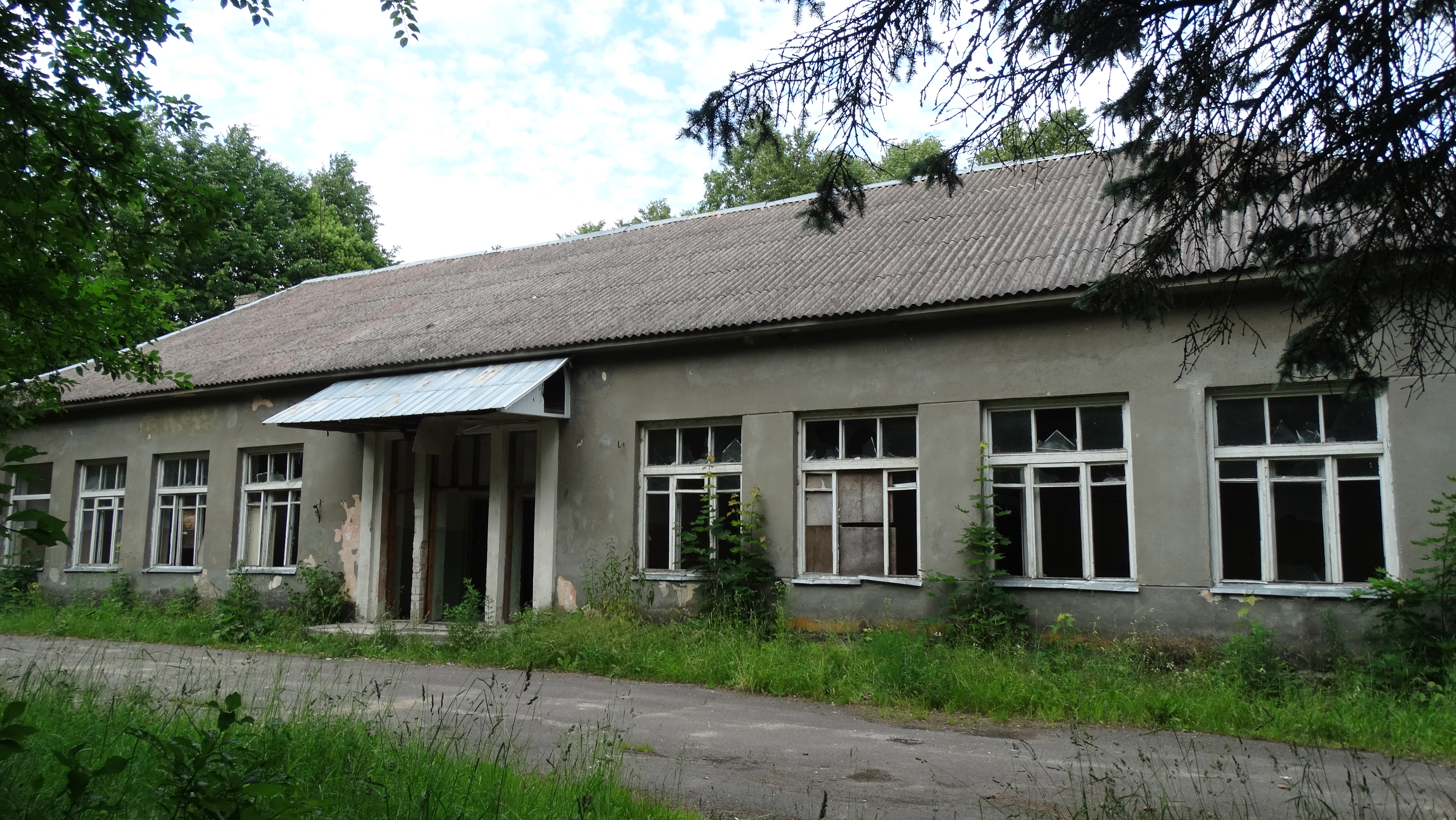 Former school, Jauniūnai, Širvintos District, Lithuania